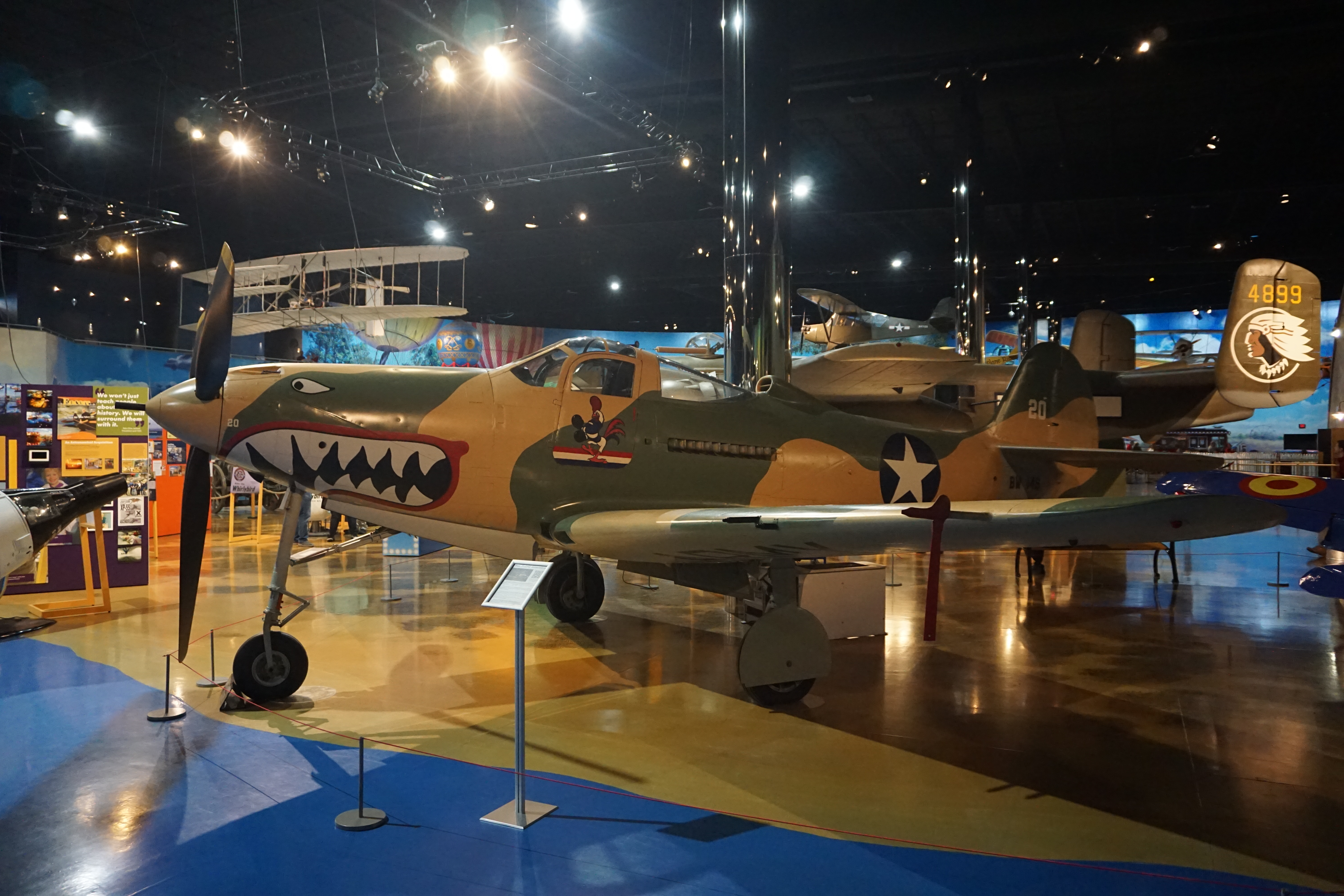 A Bell P-39Q Airacobra on display at the Air Zoo at Kalamazoo/Battle Creek International Airport in Portage, Michigan (United States).